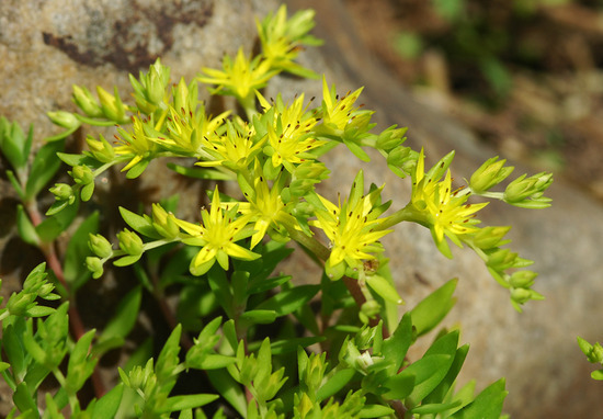 dolnamul (stringy stonecrop) (Sedum sarmentosum) flower